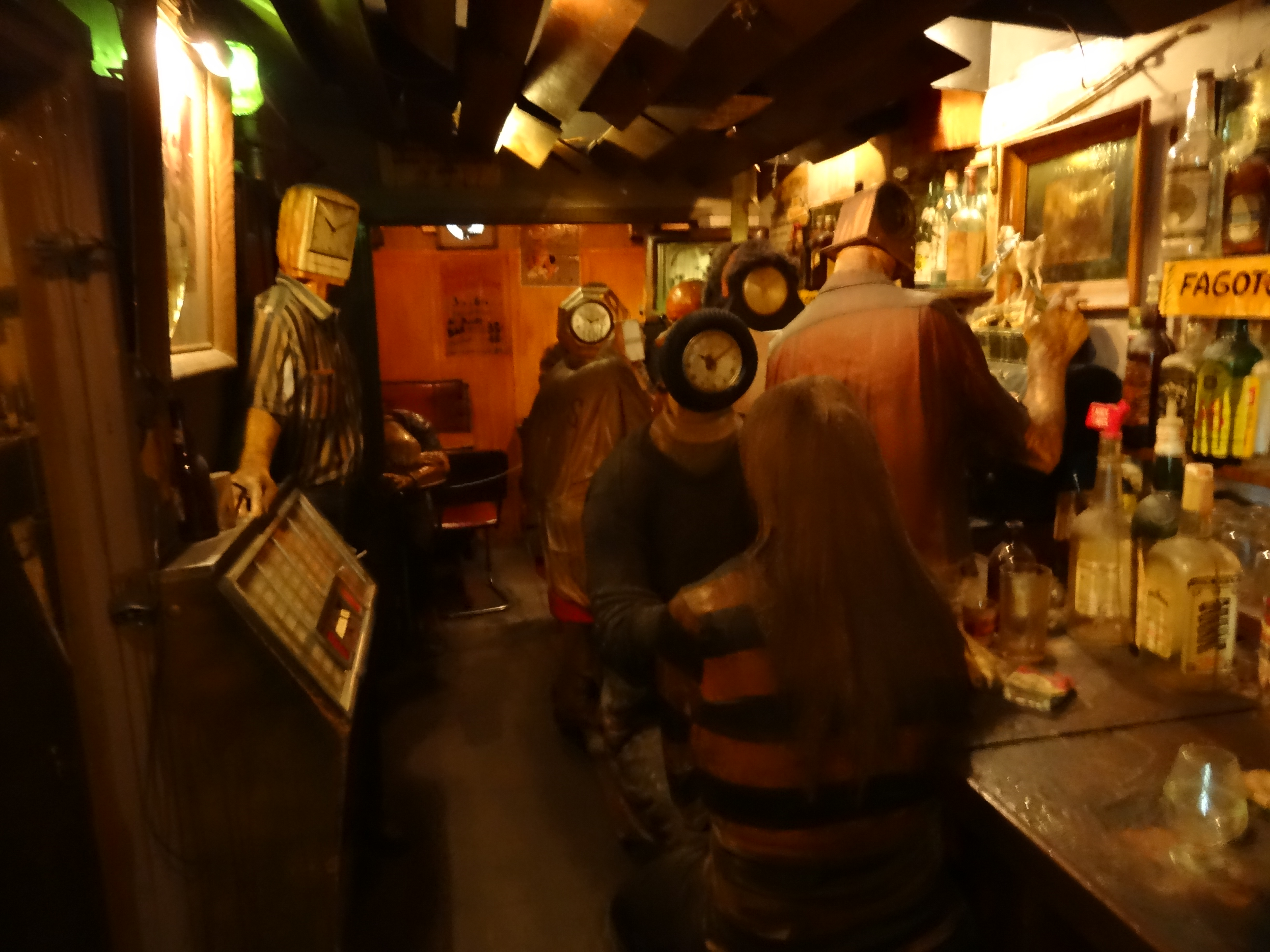 Interior view of the walk-in artwork "The Beanery" by Edward Kienholz, now in the Stedelijk Museum Amsterdam. Picture taken 2013, after the piece's restoration.